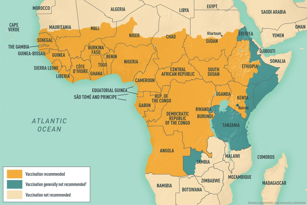 Yellow fever map CDC. Current as of January 2017.